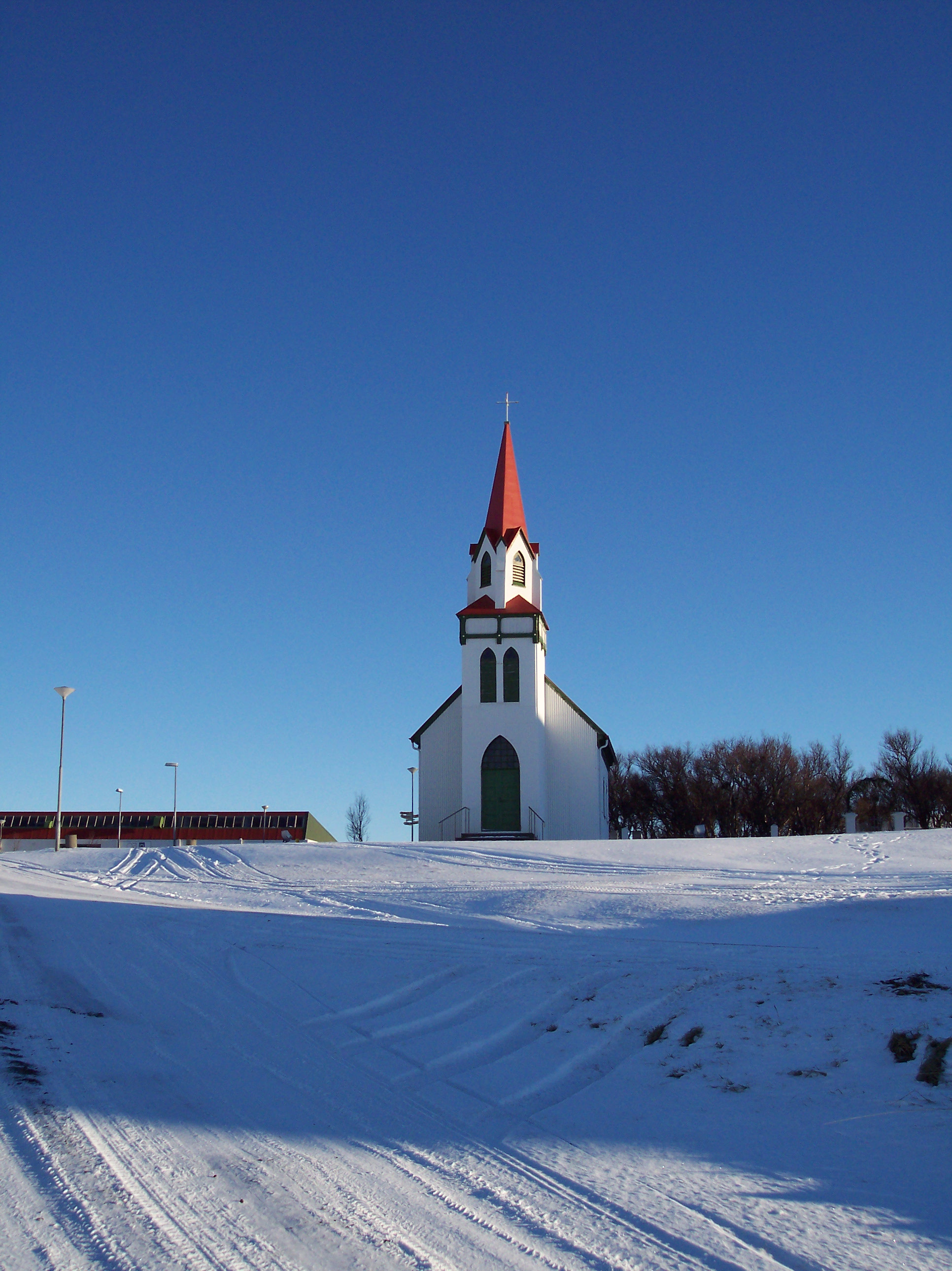 The church at Hvanneyri, Borgarbyggð, Iceland